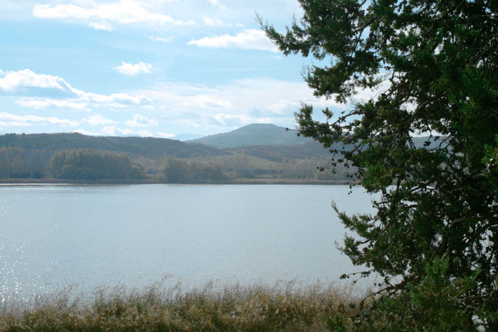 La Grajera reservoir, near Logroño, La Rioja, Spain